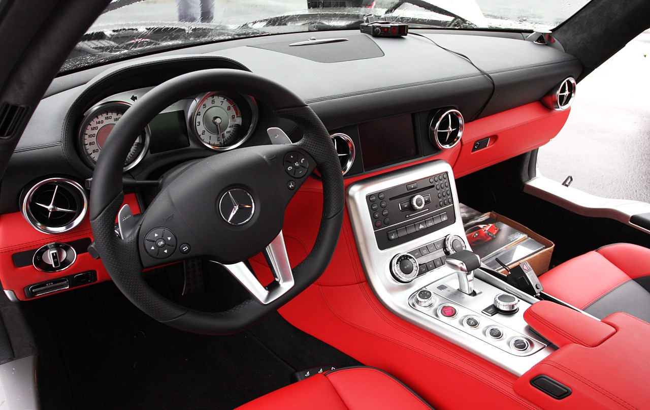 Mercedes-Benz SLS AMG